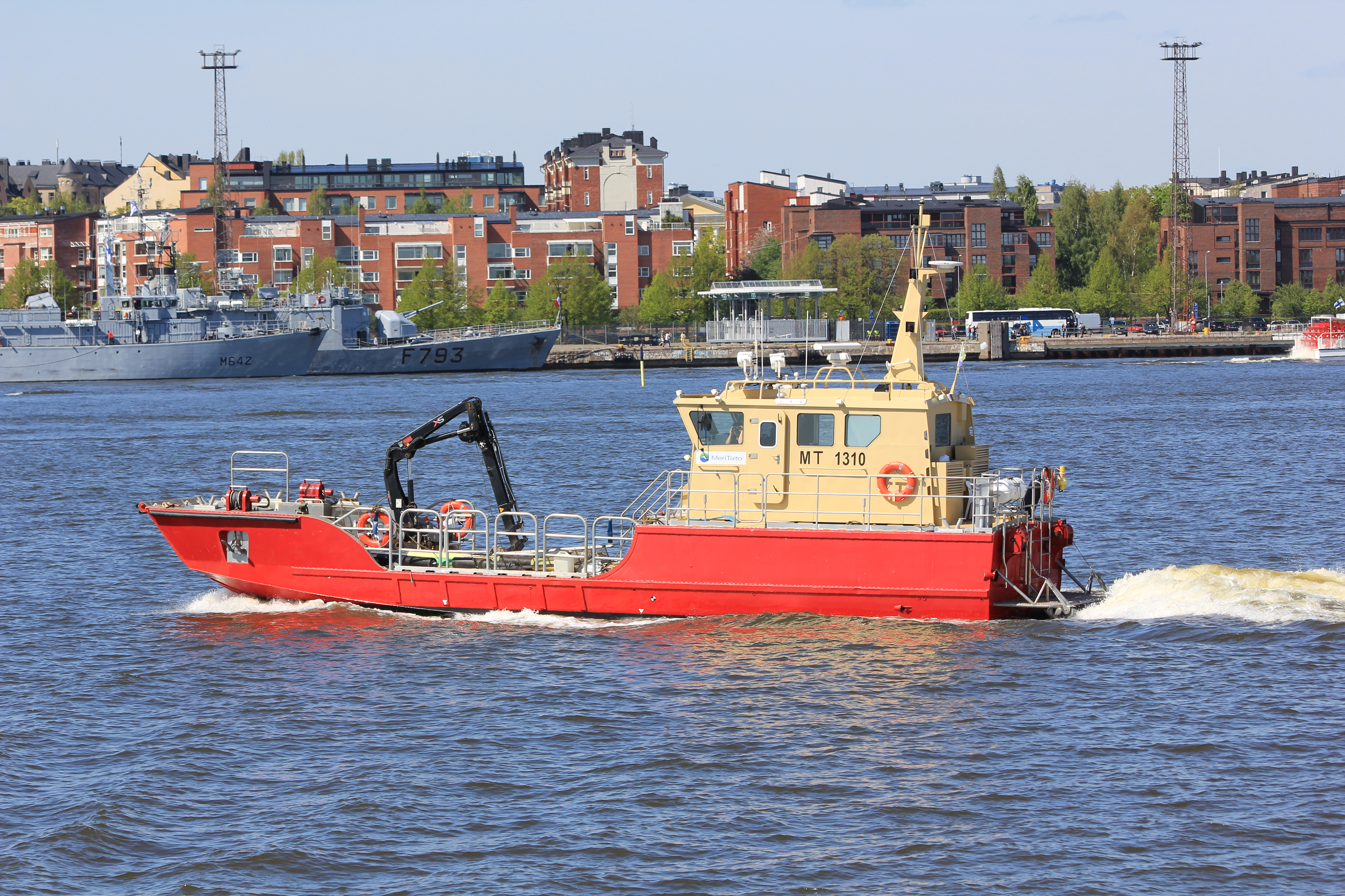 Meritaito service vessel MT 1310 south of Katajanokka. French naval ships Commandant Blaison and Cassiopée on the background visiting Helsinki.